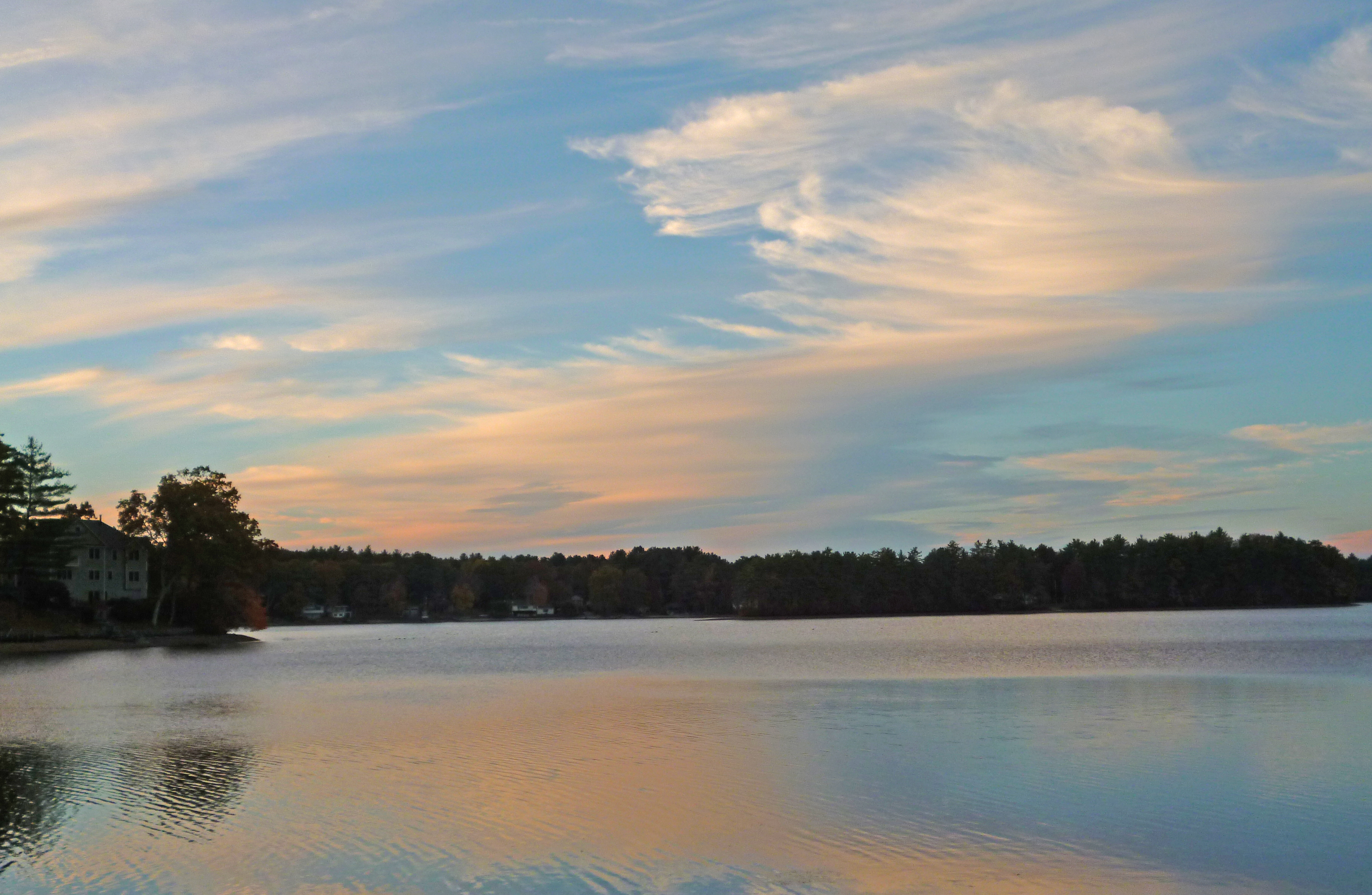 Sunset over Quaddick Reservoir, Quaddick State Park, Thompson, Connecticut.